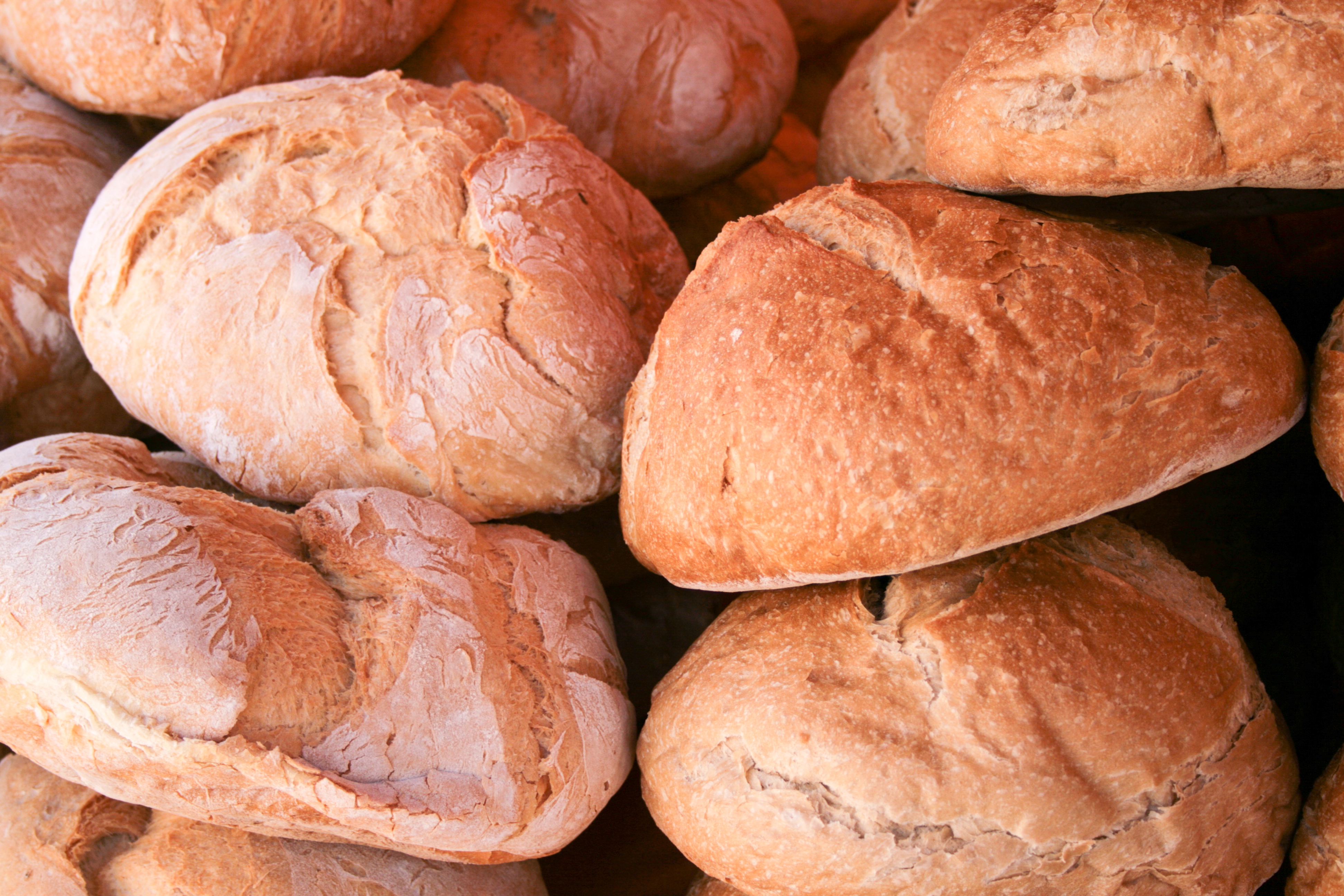 Bread from Asturies (Asturiana) Pola de Lena